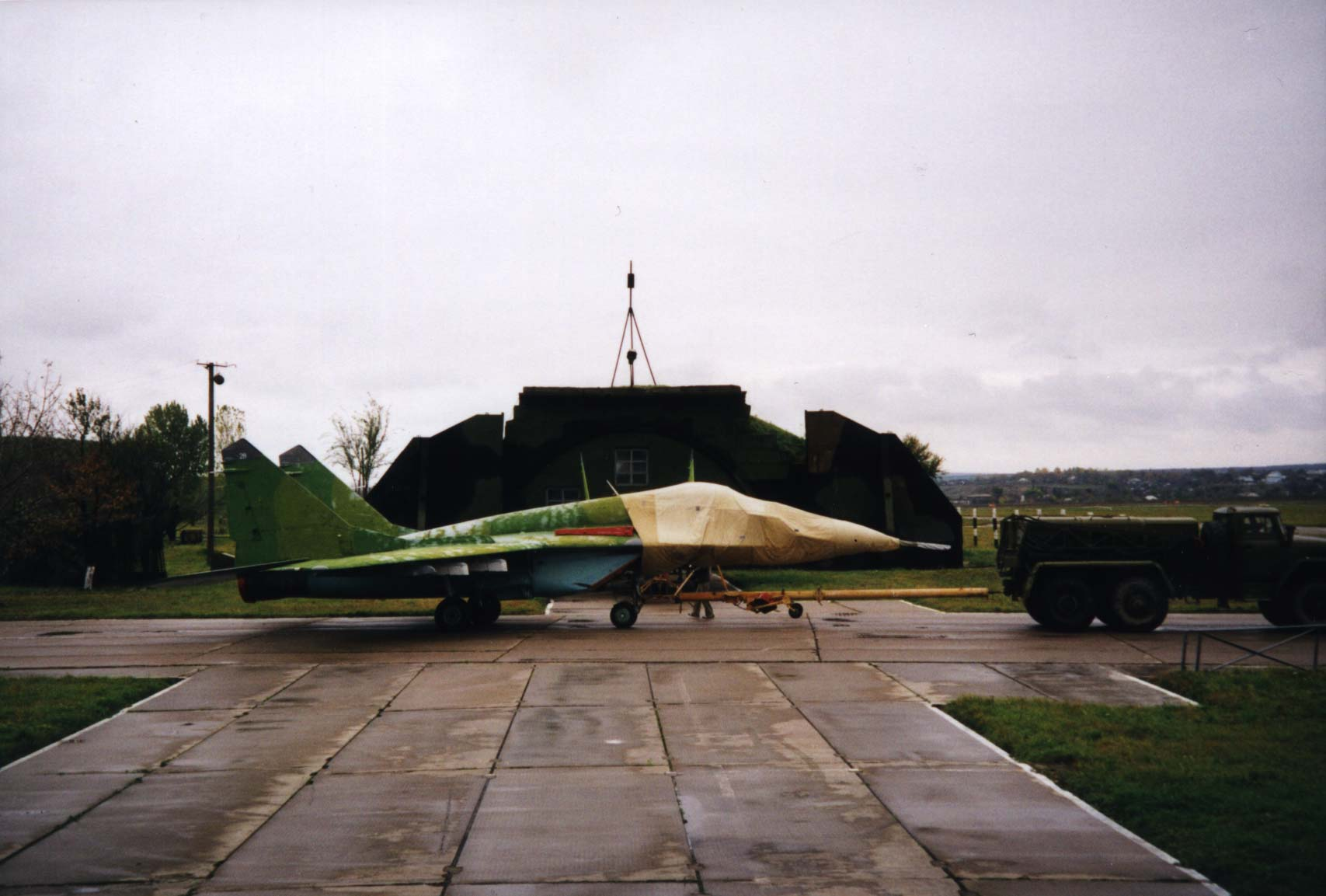 A Moldovan MiG-29C is readied for air shipment from Moldova to the United States on Oct. 17, 1997. The Department of Defense of the United States of America and the Ministry of Defense of the Republic of Moldova recently reached an agreement to implement the Cooperative Threat Reduction accord signed on June 23, 1997, in Moldova. This agreement authorized the United States Government to purchase nuclear-capable MiG-29 fighter planes from the Government of Moldova. This is a joint effort by both governments to ensure that these dual-use military weapons do not fall in to the hands of rogue states.